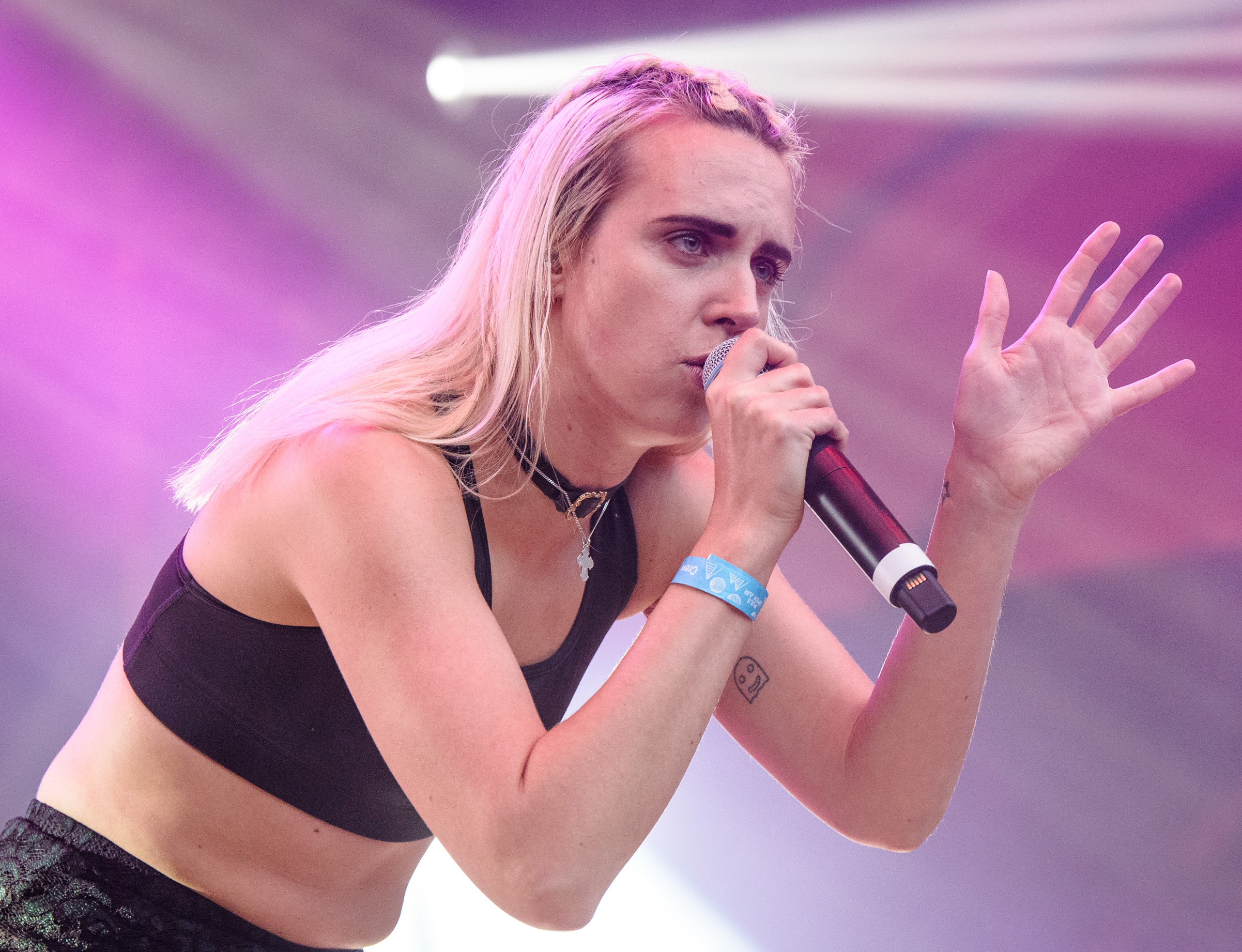 Mö Live @ Pulsopenair 2016